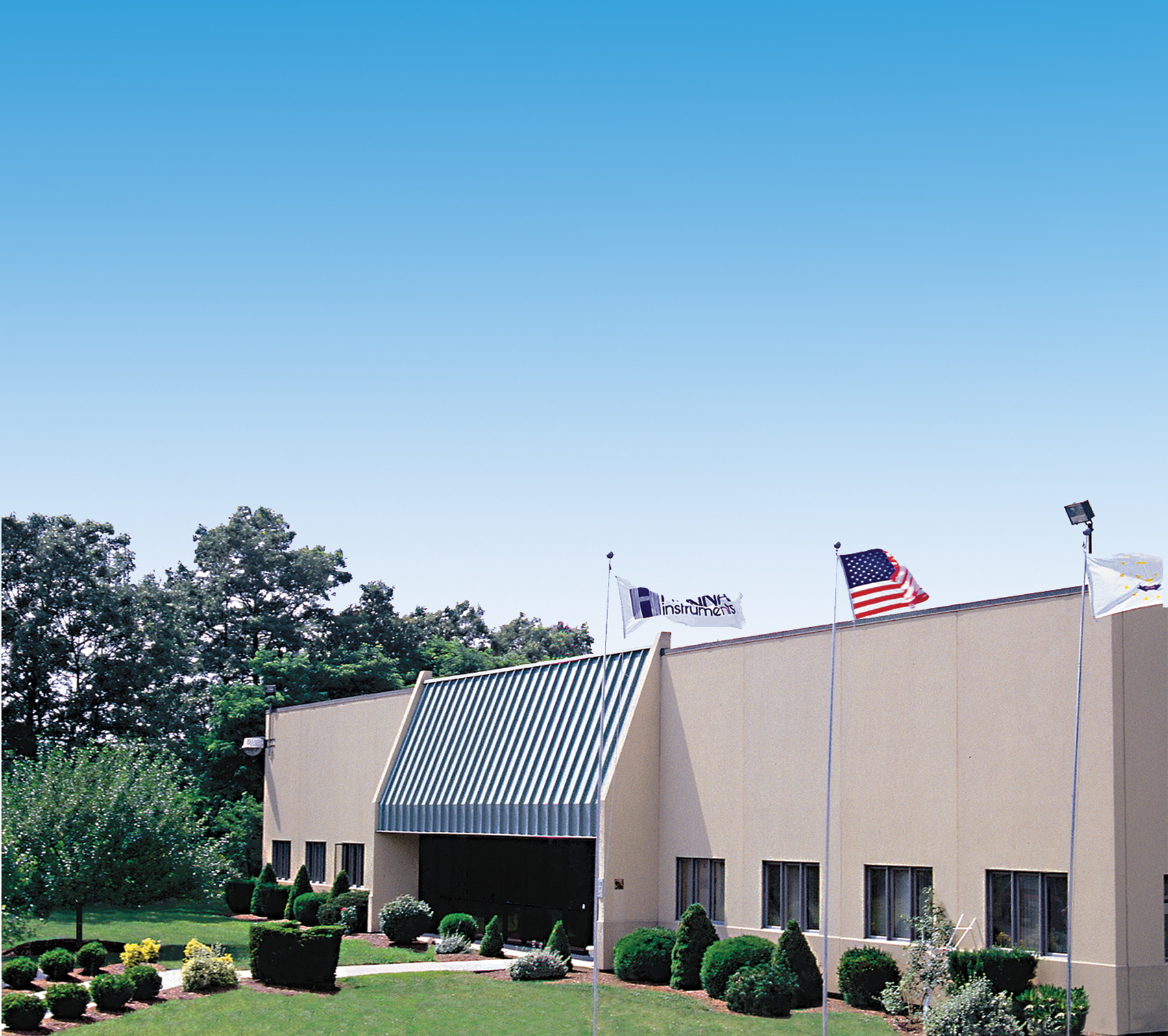 Hanna Headquaters Photo